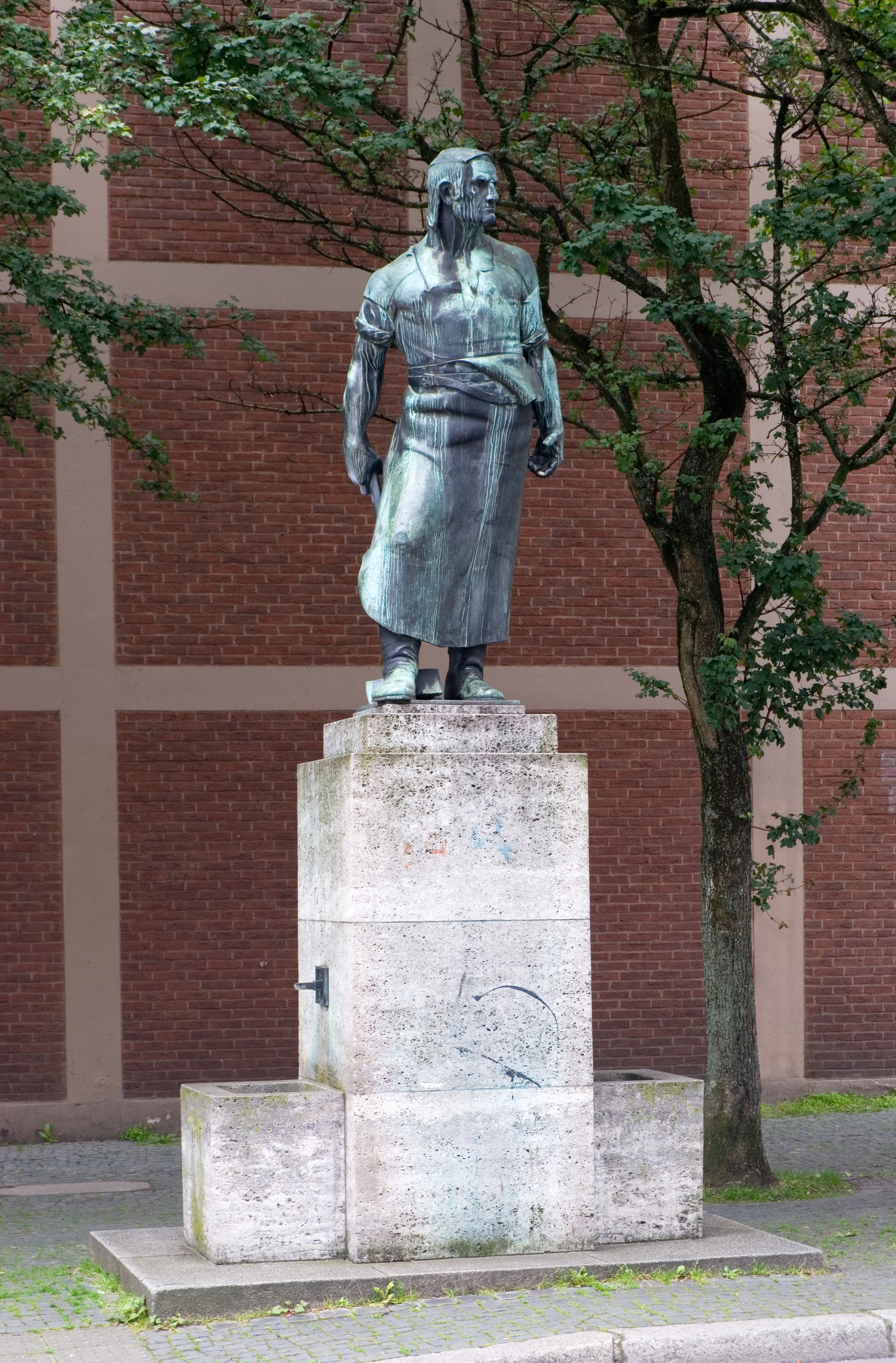 Aachen (North Rhine-Westphalia, Germany) – monument and fountain Wehrhafter Schmied (“defensive blacksmith”) This image shows a heritage building in Germany, located in the North Rhine-Westphalian city Aachen. This photograph was taken with a Nikon D3000